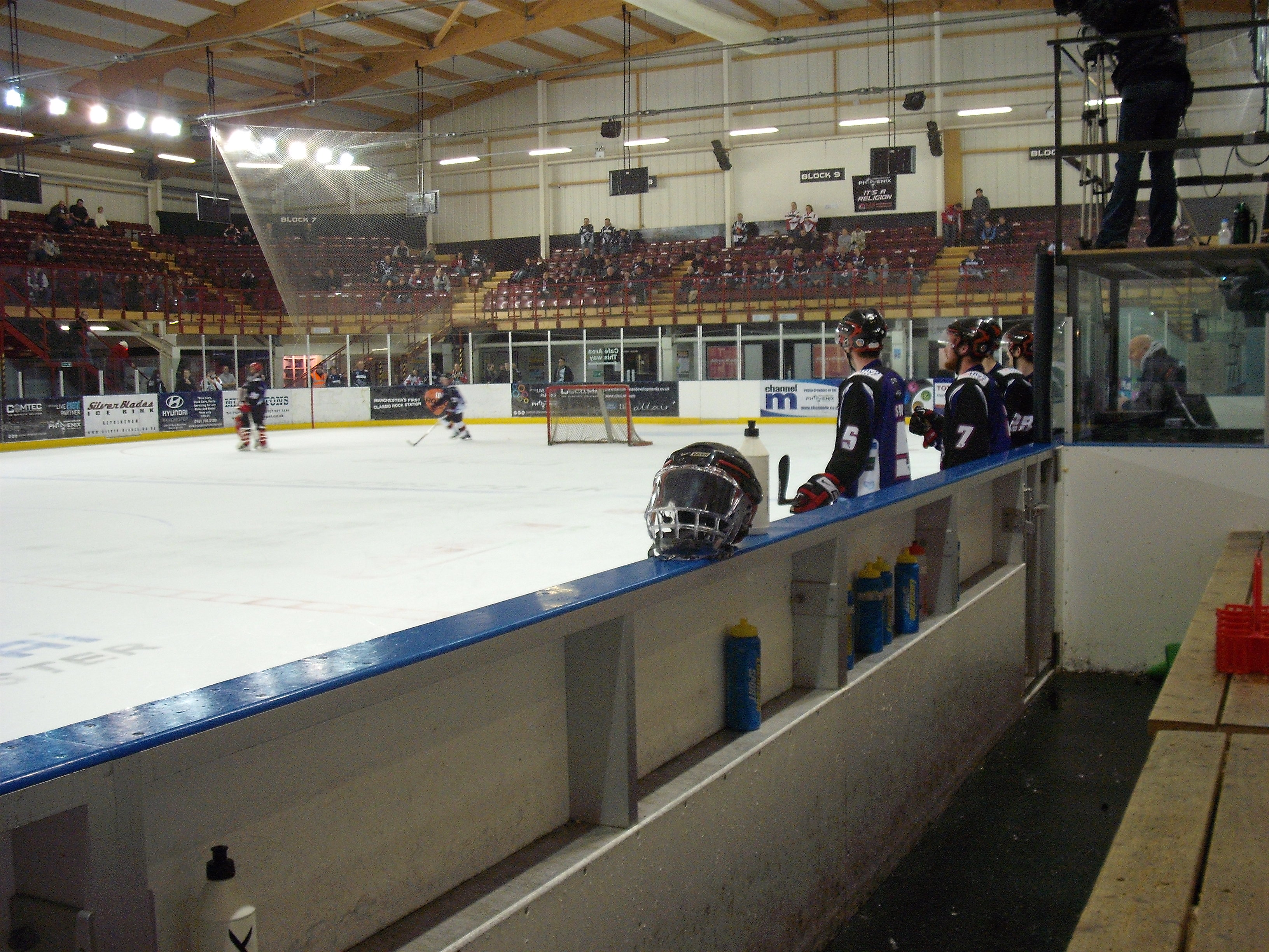 Photograph of the closed end of the horseshoe at the Altrincham Ice Dome, taken from the home team bench.